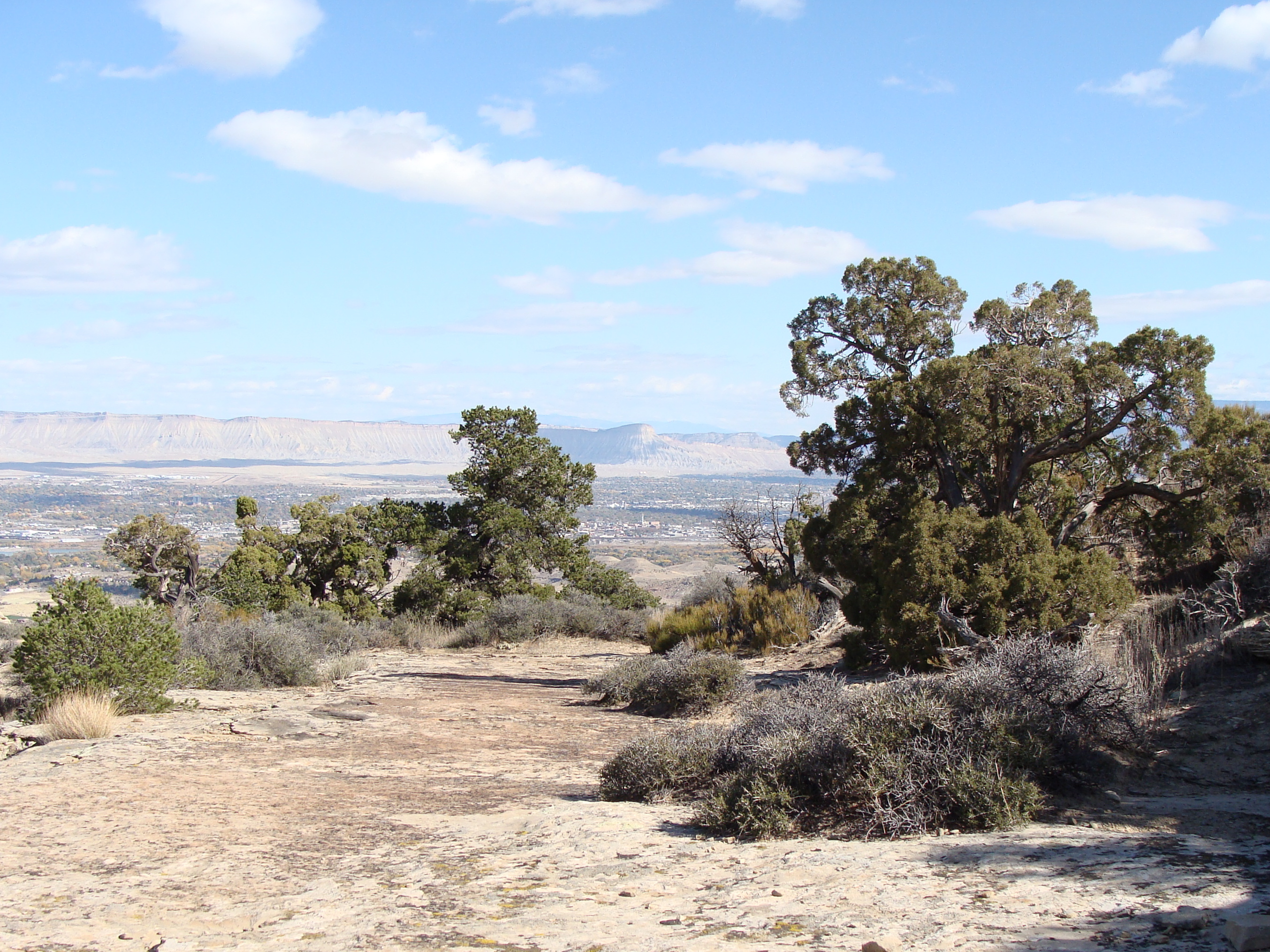 Pinyon-Juniper woodland on the Serpents trail, near Grand Junction, Colorado